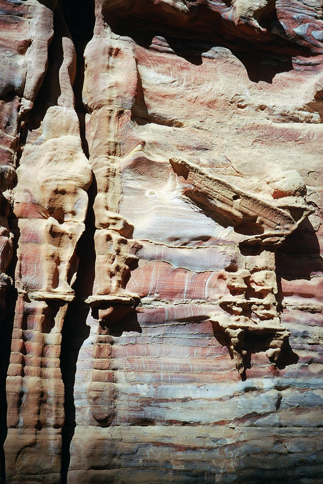 Colorful sandstone formation in Petra, Jordan